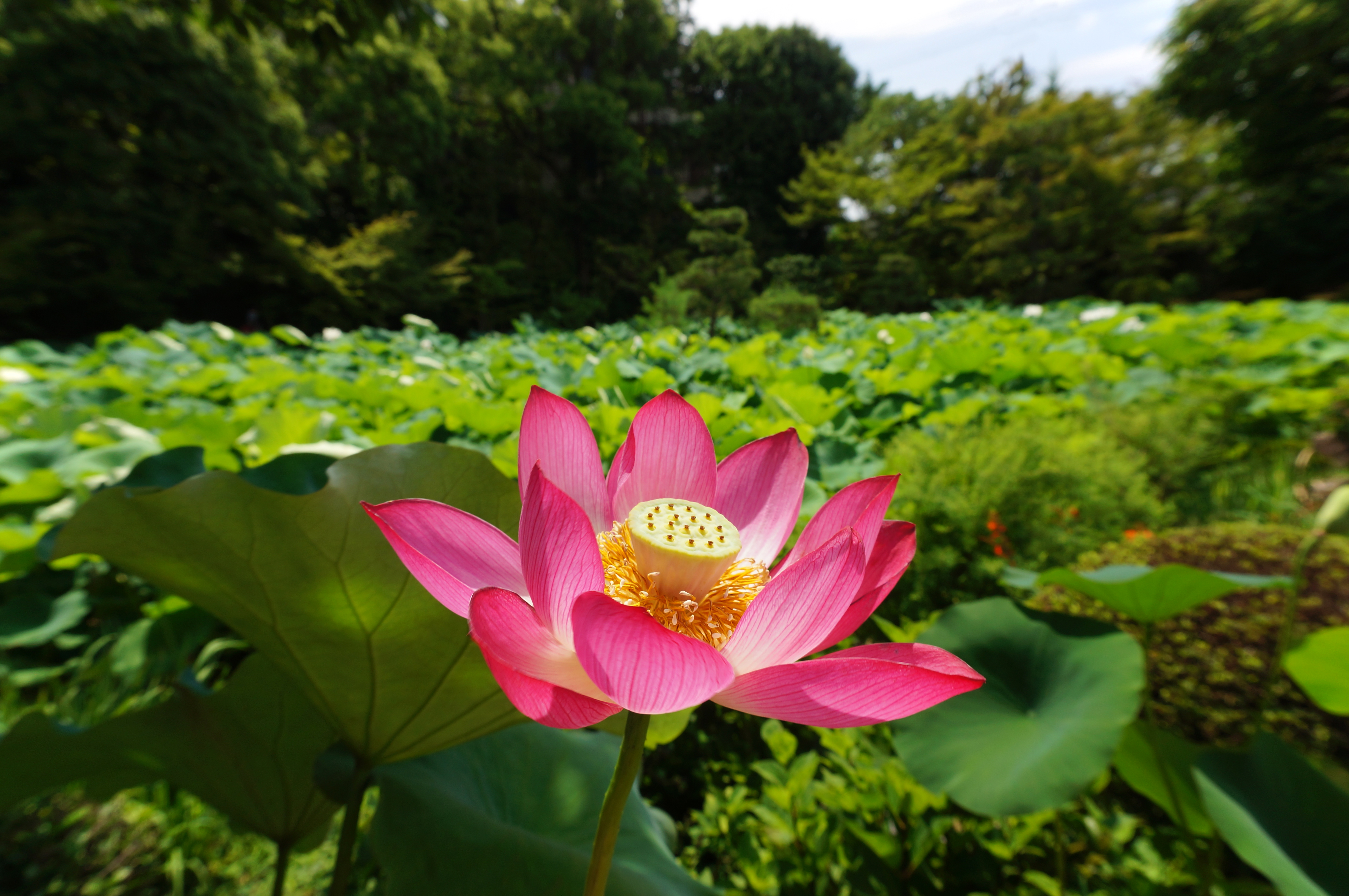 Hōkongō-in in Ukyō-ku, Kyoto, Kyoto Prefecture, Japan. Seijo-no-taki of Hōkongō-in Garden that is an extremely important cultural asset of Japan "Special Places of Scenic Beauty"